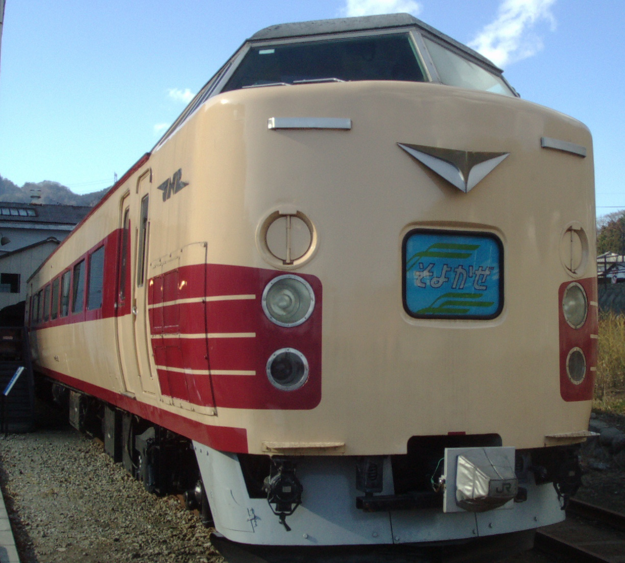 Preserved former JR East 189 series EMU car KuHa 189-506 at the Usui Pass Railway Heritage Park displaying a Soyokaze headboard